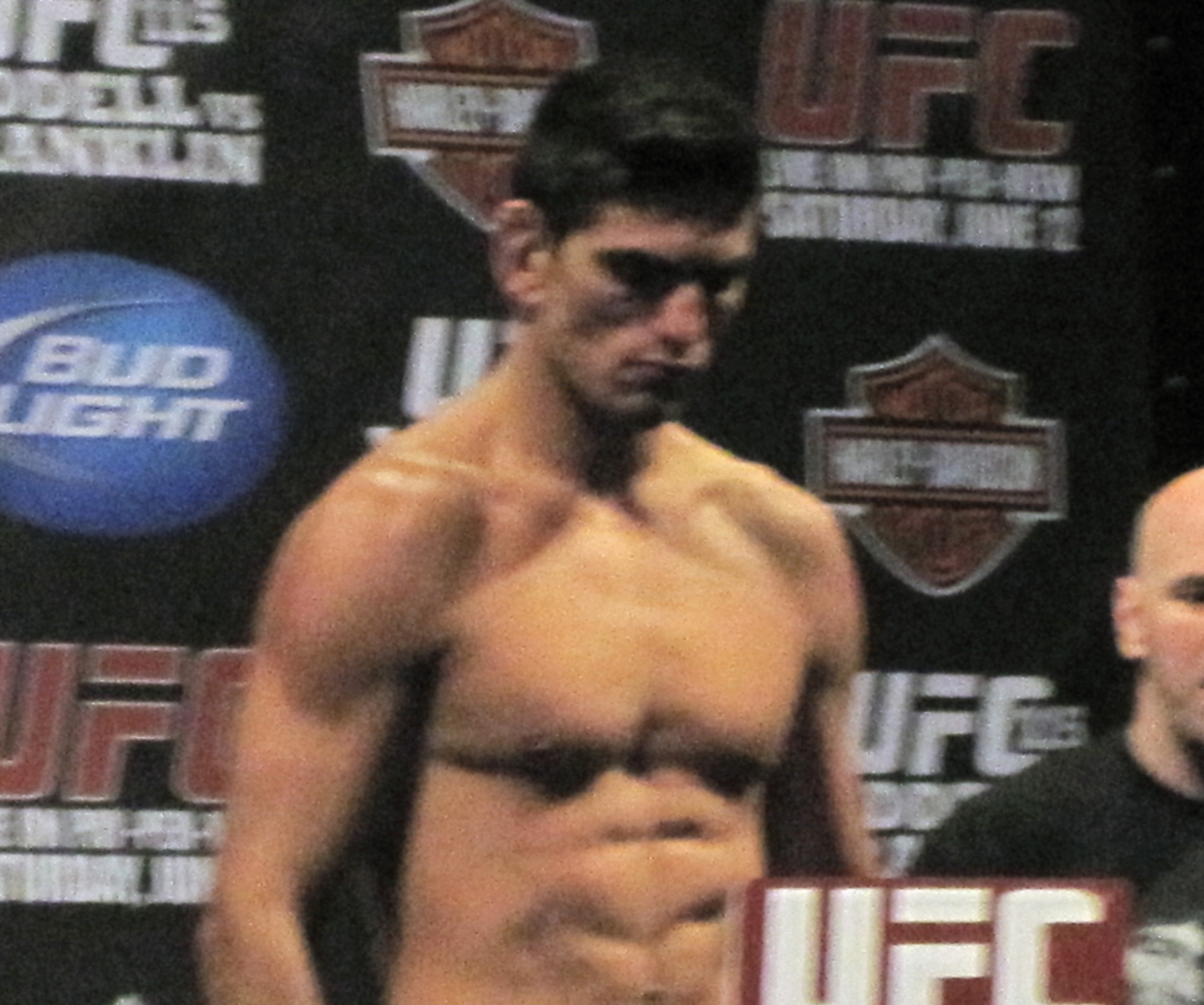 Paulo Thiago weighing in for UFC 115 in Vancouver.